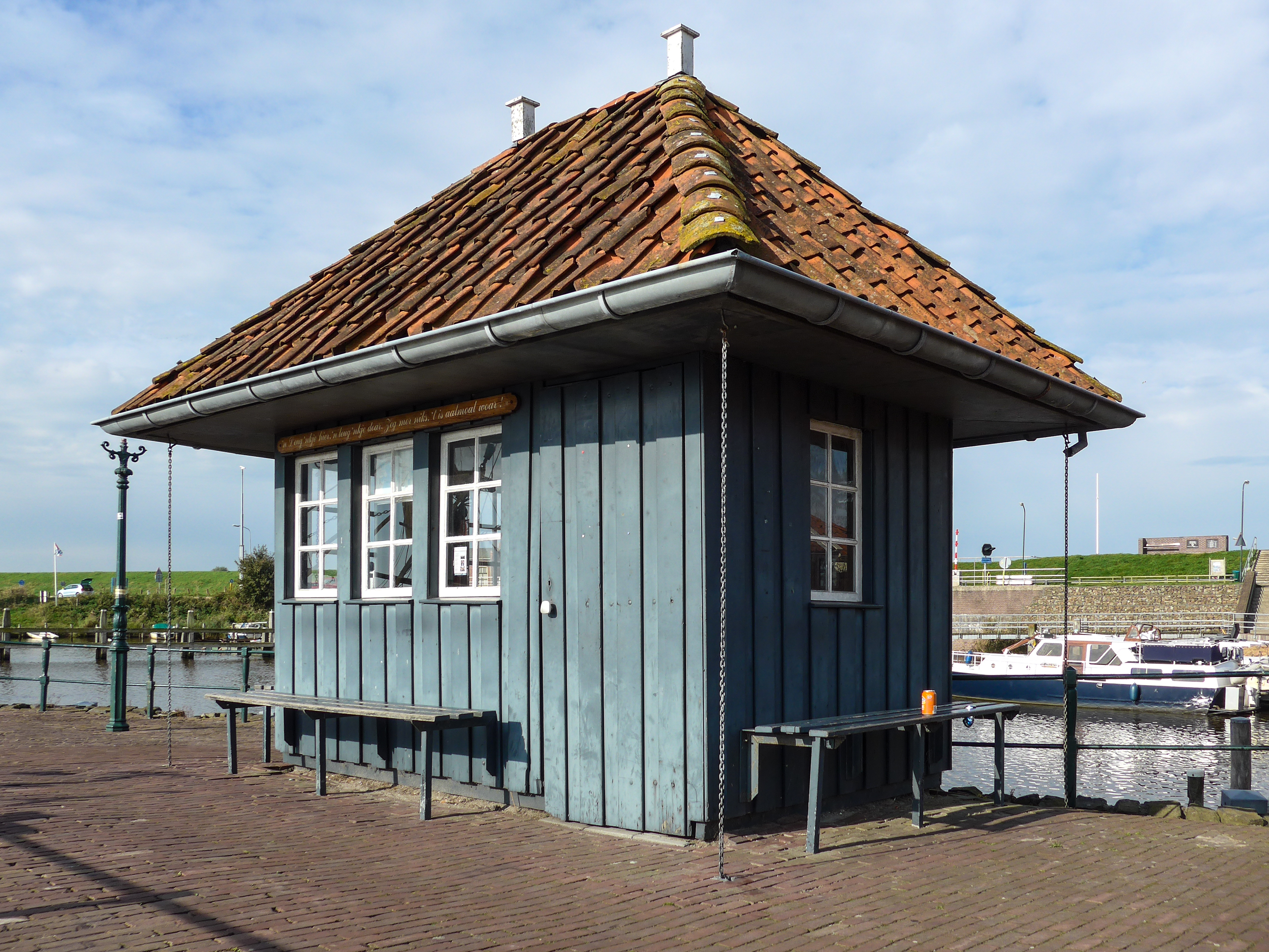 Building in Zoutkamp, a village in the Dutch province of Groningen.